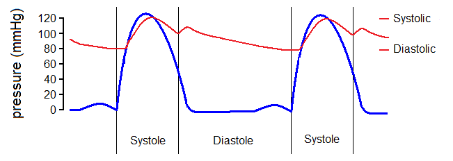 The image shows the pressure in the aorta (red line) and the left ventricle (blue line) over two cardiac cycles, as well as the systolic pressure and diastolic pressure.